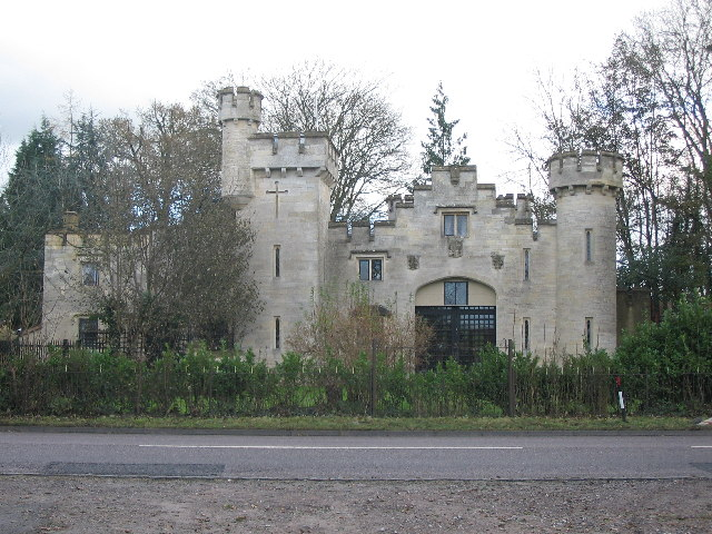 Castle Lodge. Looking east across the A350 to Castle Lodge. Now a private residence, this was probably part of the estate of Rood Ashton Hall.